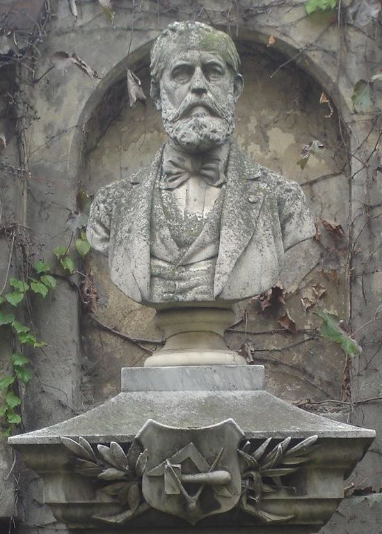 Bust of Romanian sculptor Karl Storck from the Evangelical Cemetery in Bucharest. / Die Büste des Bildhauers Karl Storck, auf seinem Grab im Evangelisch-Lutherischen Friedhof in Bukarest, von Frederic Storck ausgehauen / (Original description: "Bustul sculptorului Karl Storck, fotografiat de mine în Cimitirul Evanghelic Lutheran din Bucureşti (detaliu)") Frederic Storck (1872–1942) Alternative names Friedrich Storck, Fritz StorckDescriptionRomanian sculptorDate of birth/death 10 January 1872 26 December 1942Location of birth/death Bucharest BucharestAuthority control : Q368977 VIAF: 96120065 ULAN: 500064165 GND: 1175921076 RKD: 434323 creator QS:P170,Q368977